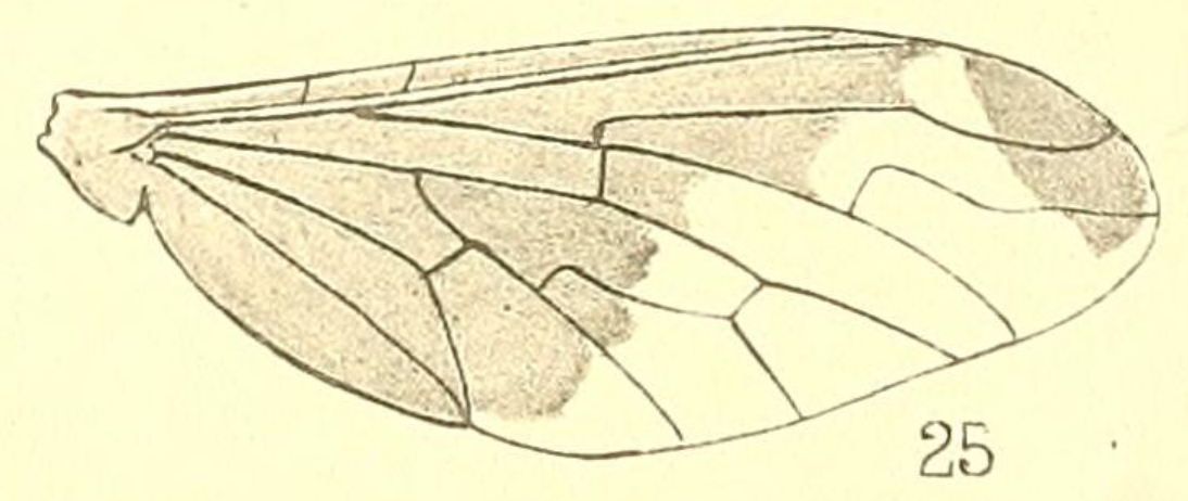 Captioned "Anthrax gentilis, Brun., ♂ ♀, wing."